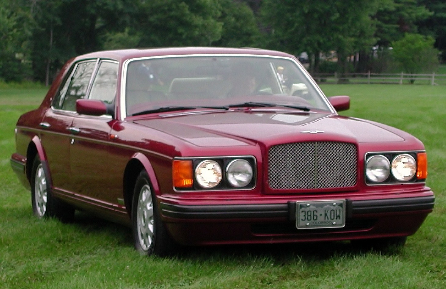 1997 Bentley Brooklands R Mulliner Photographed by Jagvar at the Rolls-Royce Owners' Club's national meet in Darien, Connecticut on July 30, 2005.